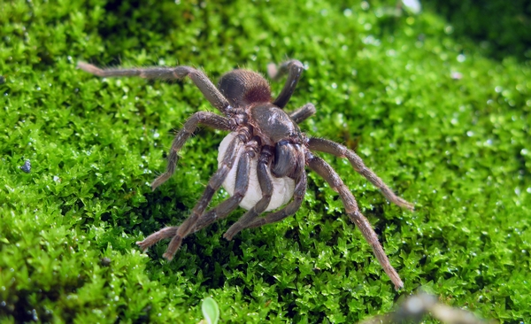 Holothele sulfurensis, tarantula from the Soufrière national park (Guadeloupe)